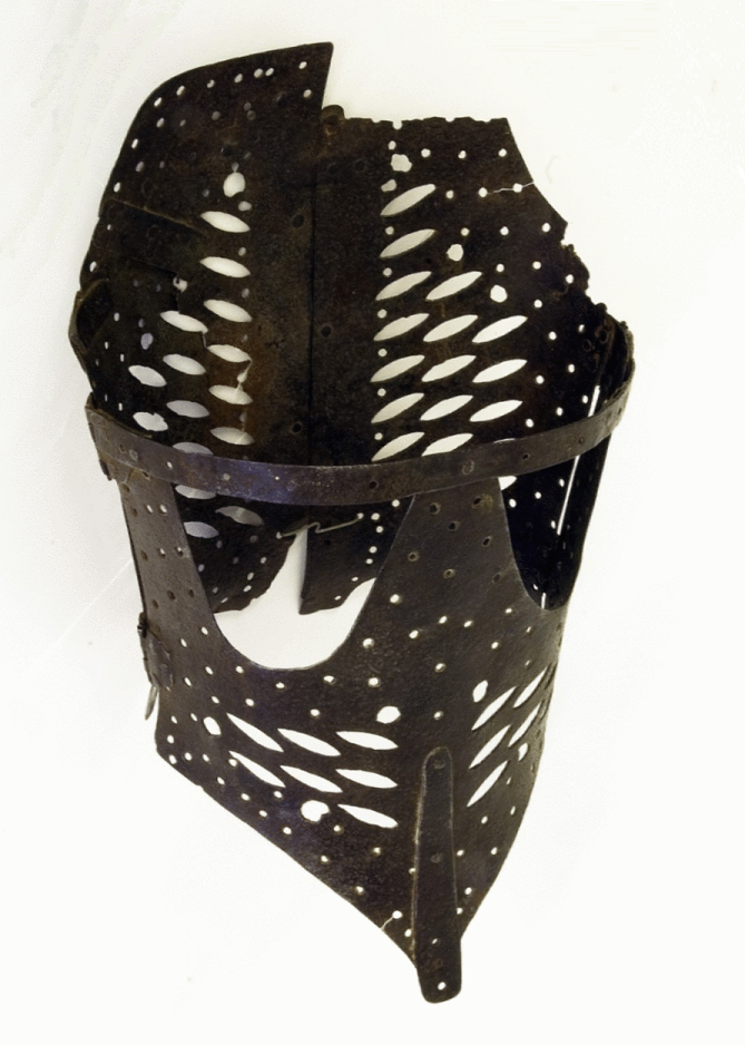 Corset of iron with back clasp opening and hinges at either side. The whole is perforated. The front tapers away into a point. A narrow band forms the top front below which are two large holes.